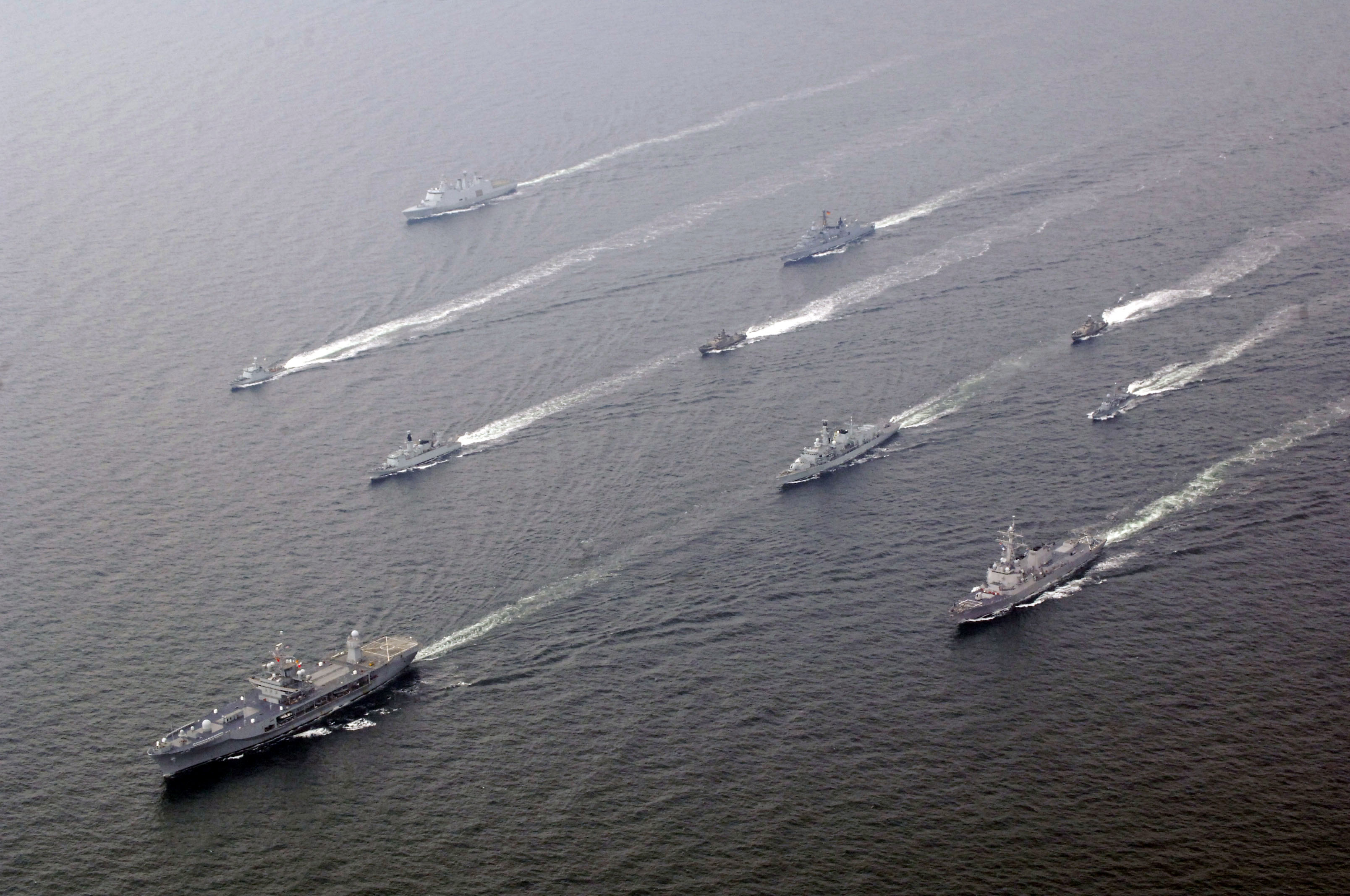 090608-N-0793R-001 BALTIC SEA (June 8, 2009) The amphibious command ship USS Mount Whitney (LCC/JCC 20) leads an international formation of ships from 12 nations during the first day of the Baltic Operations (BALTOPS) exercise.